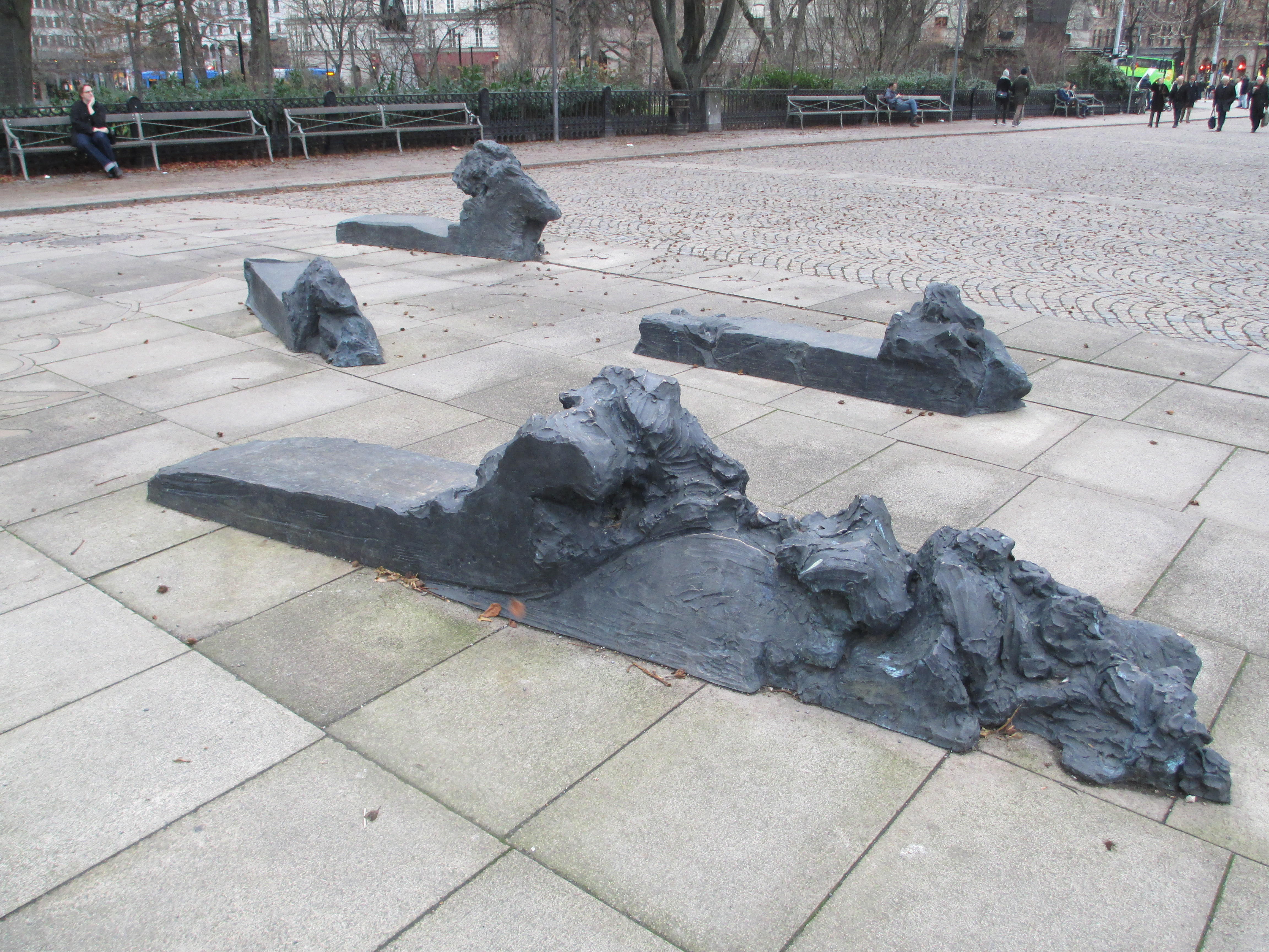 Very controversial memorialPlace: Nybroplan, Stockholm, Sweden